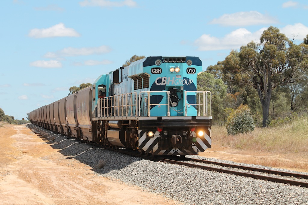 CBH 10 entering Yilimining yard (ie from west) on the way to Wickepin CBH receival point with a set of empties